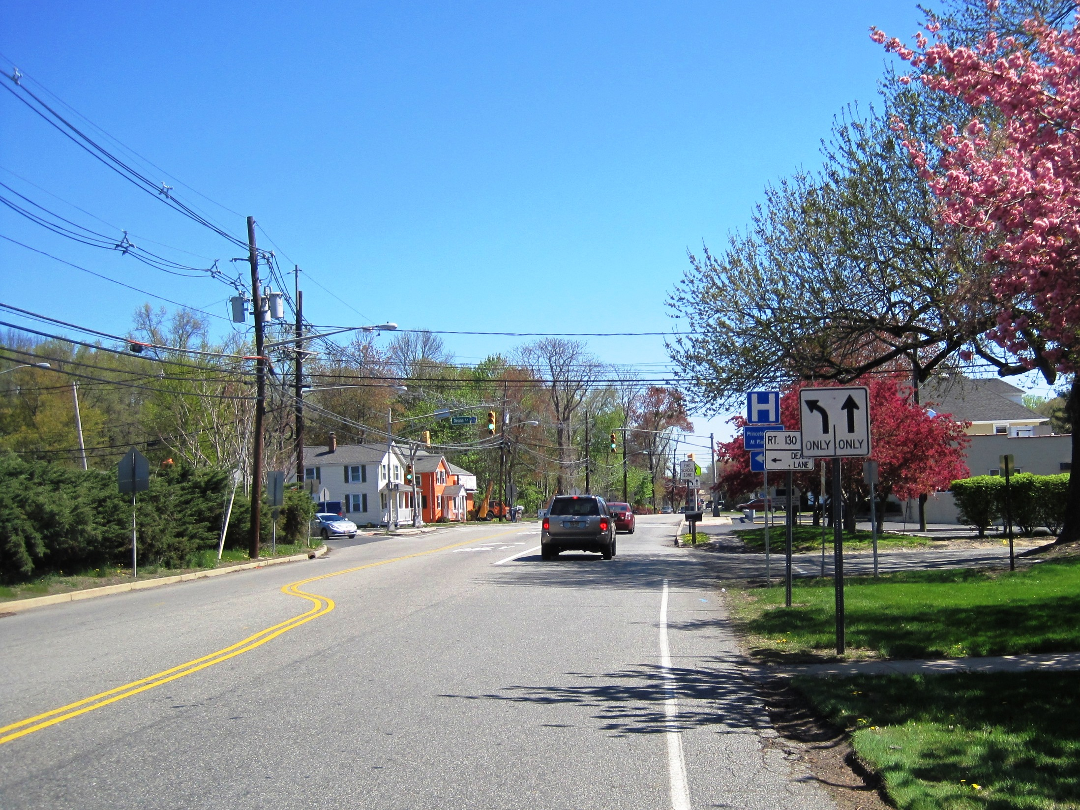 Photo showing Deans, New Jersey, an unincorporated community within South Brunswick. Photo was taken at the intersection of Georges Road and Deans Lane (County Route 610).